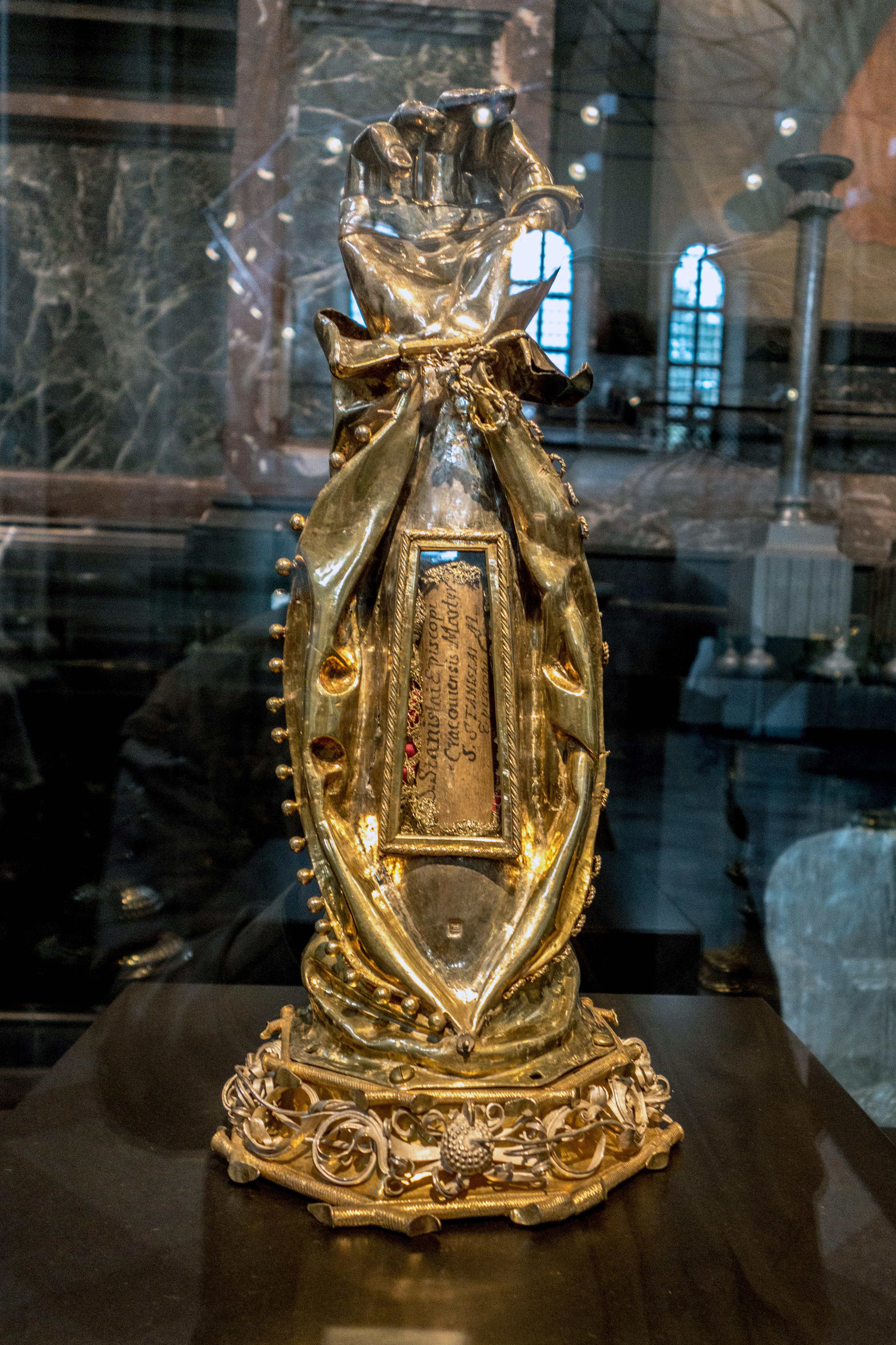 The Reliquary of st. Stanislaus. Central Europe, Vilnius (?), - 1500–03.The earliest surviving reliquary in Lithuania belongs to the type of so-called “talking” reliquaries. Its form refers to the relic contained inside – part of the forearm bone of the Bishop of Krakow St. Stanislaus. According to a tradition unconfirmed by documents, a small part of the saint’s remains was given to the Vilnius Cathedral on the occasion of its consecration by the chapter of the Krakow Cathedral in 1388. However, the reliquary that contains the remains is at least one century older and typical of the Gothic period of the late 15th-early 16th c.